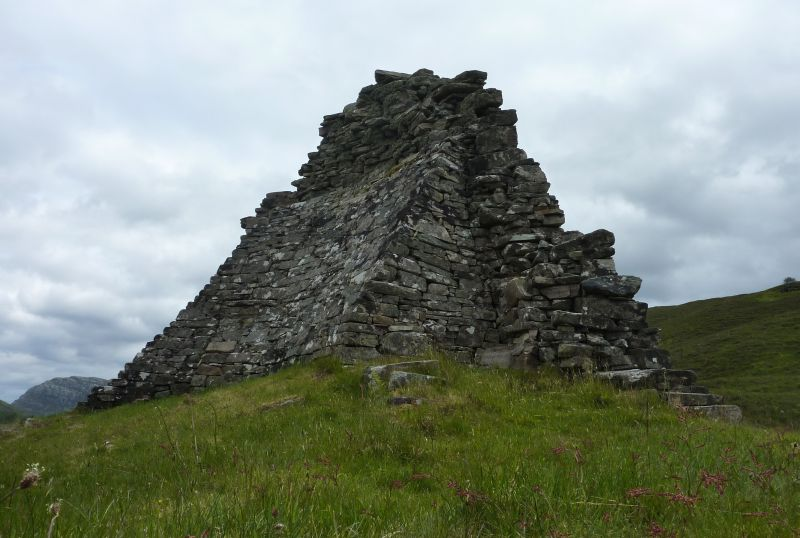 Dun Dornaigil, a broch in Sutherland, Scotland